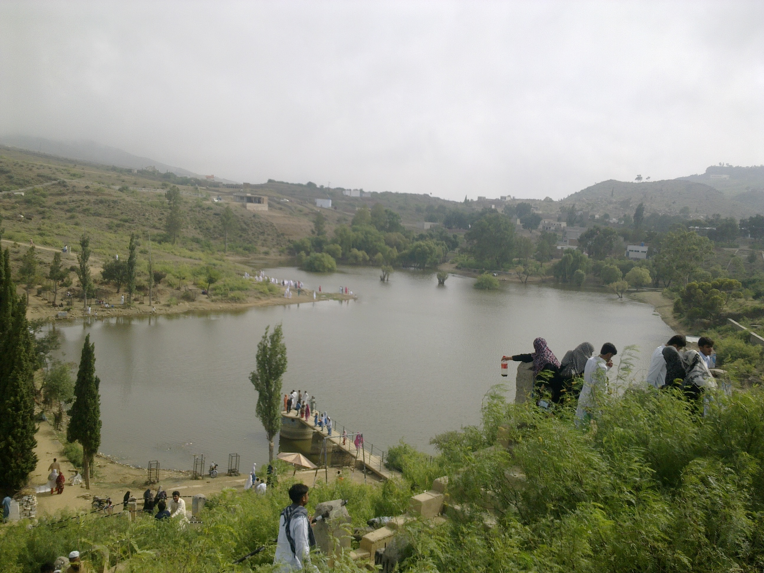 Damis Lake, Fort Munro